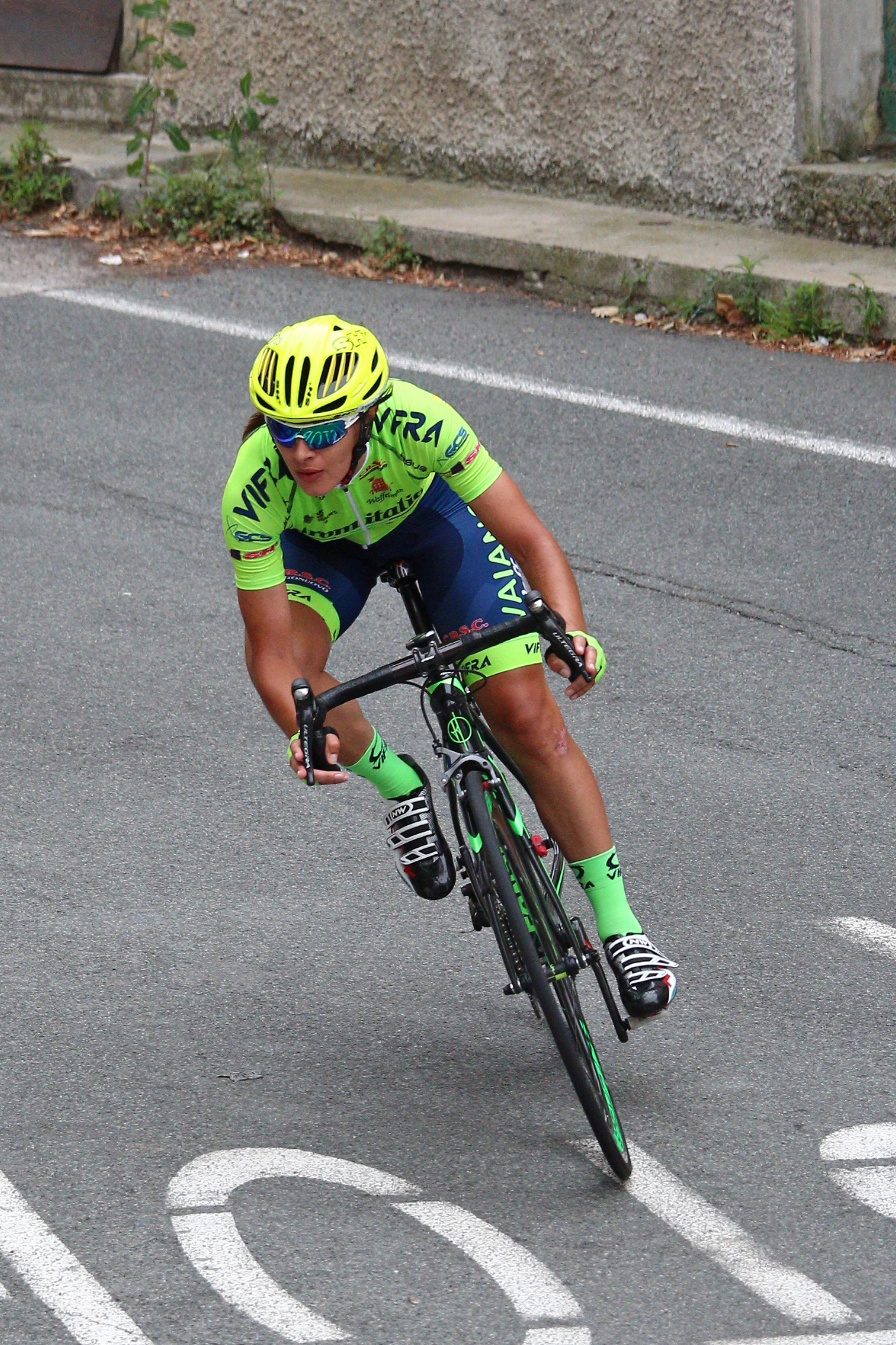 Alessia Martini during the 7th stage of Giro Rosa 2016 in Stella San Martino